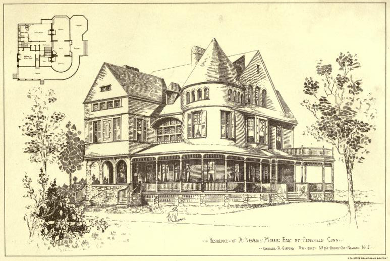 "Residence of A. Newbold Morris, Esq. at Ridgefield, Conn. – Charles A. Gifford, Architect, No. 764 Broad St., Newark, N.J."